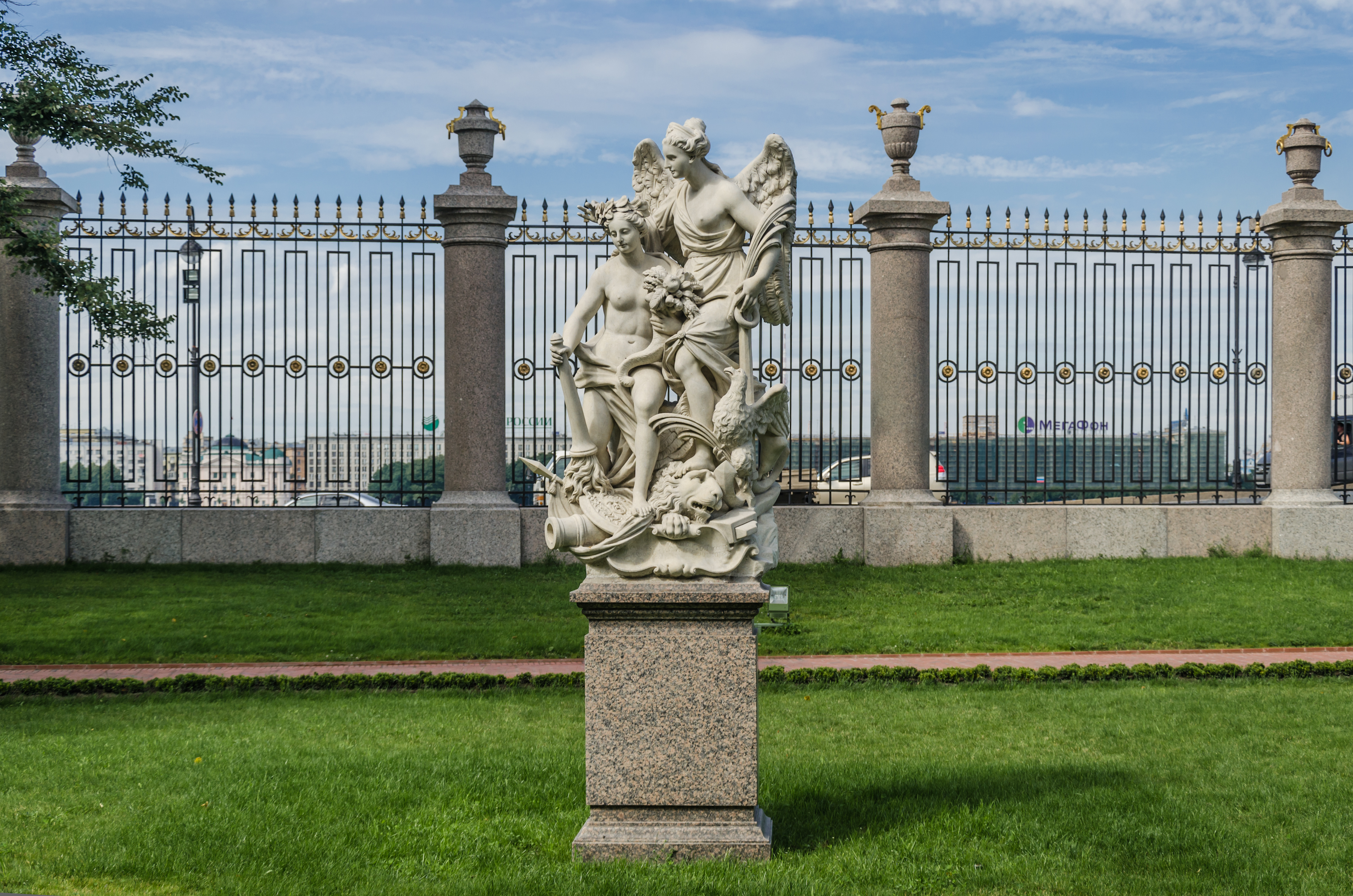 Sculpture 'Peace and Victory. Treaty of Nystad' (P. Baratta, 1725)in Summer garden, Saint Petersburg